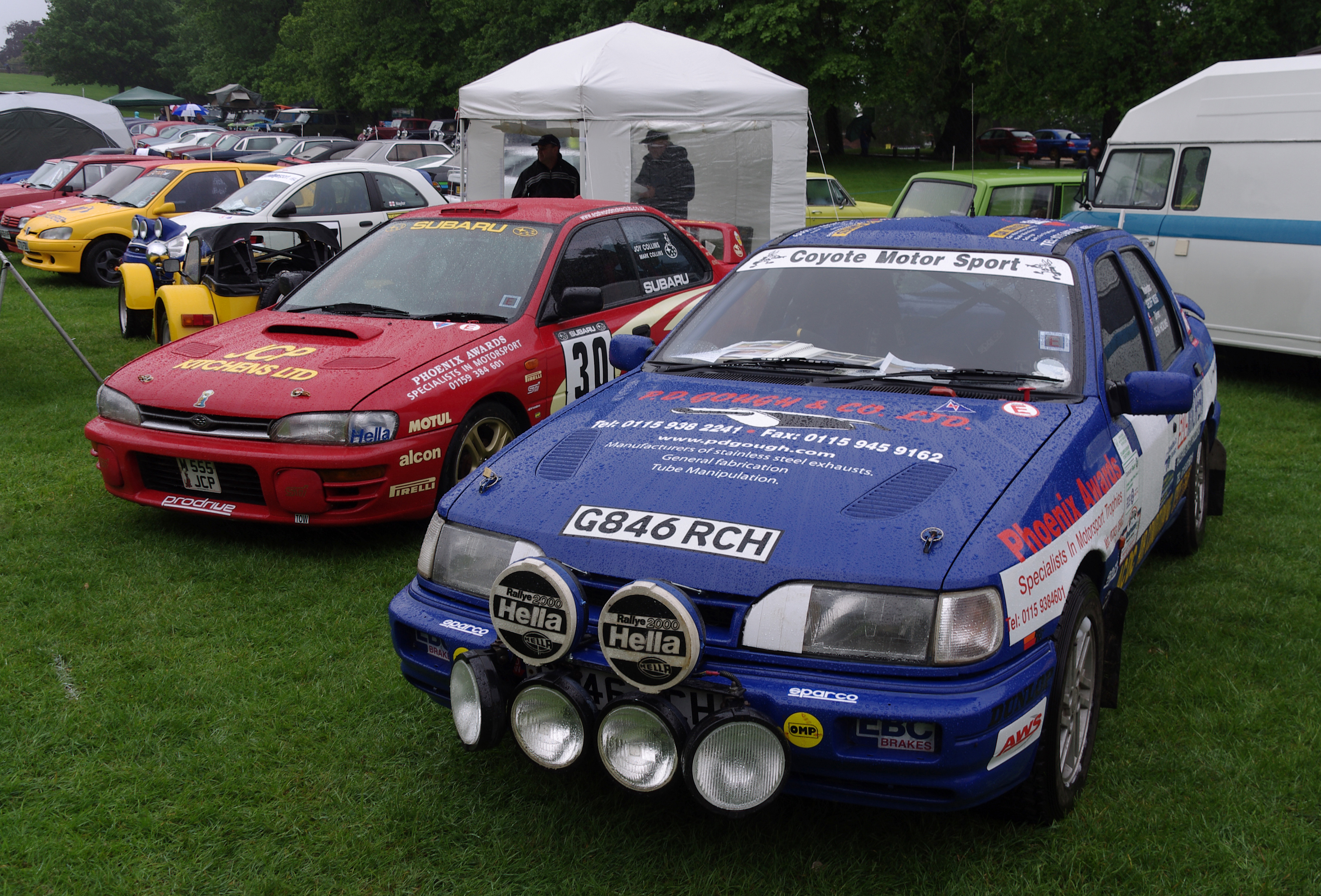 Subaru Impreza and Ford Escort rally cars at the Nottingham Autokarna.